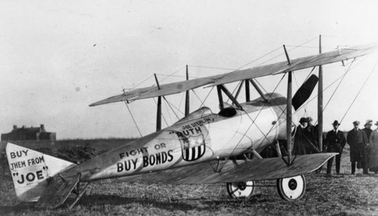 Berkmans "Speed Scout", U.S. Army Air Service fighter promoting war bonds.